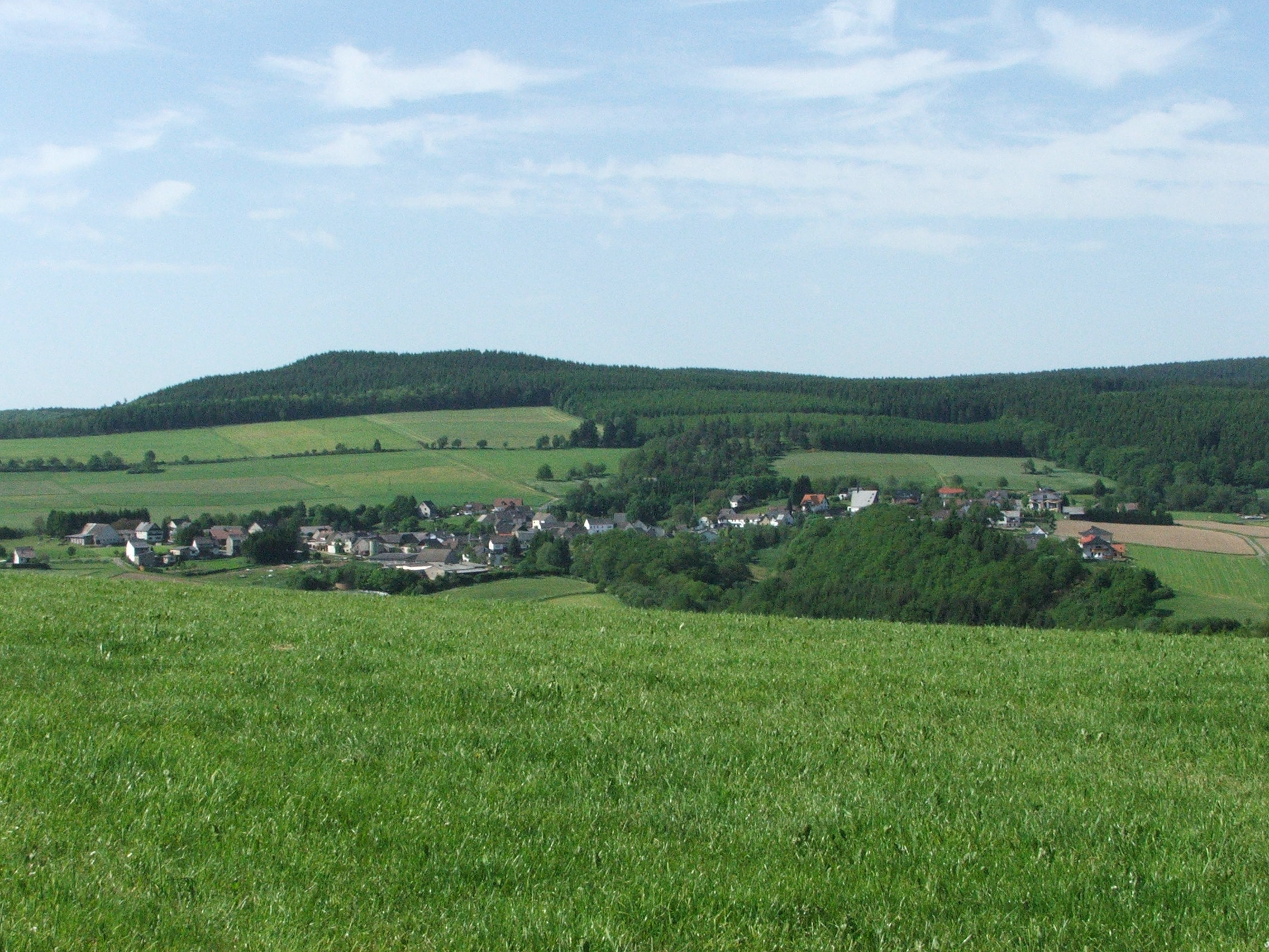 View of Hohenleimbach